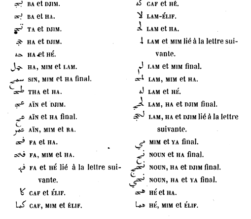 Various ligatures from Wright